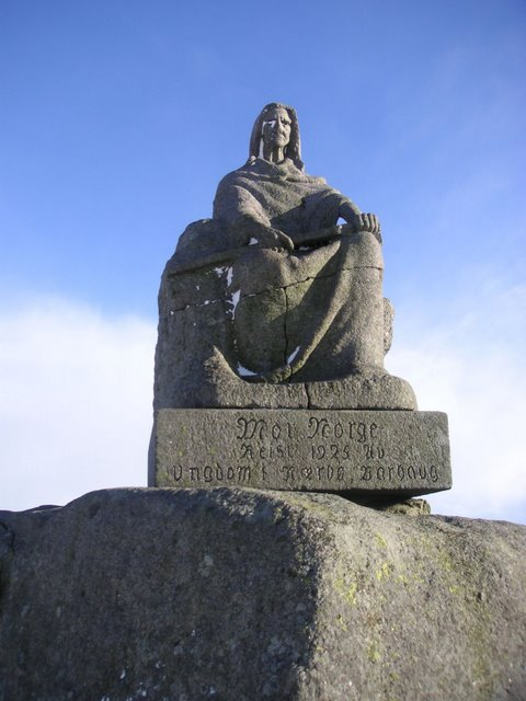 This is a statue originally made by the norwegian artist Neandros 1898-99 which was not completed. In 1925 youth from Hå kommune decided to put the monument in the heaths of Anniksdal, that is now called Synesvarden landskapsvernområde in Hå in Jæren.